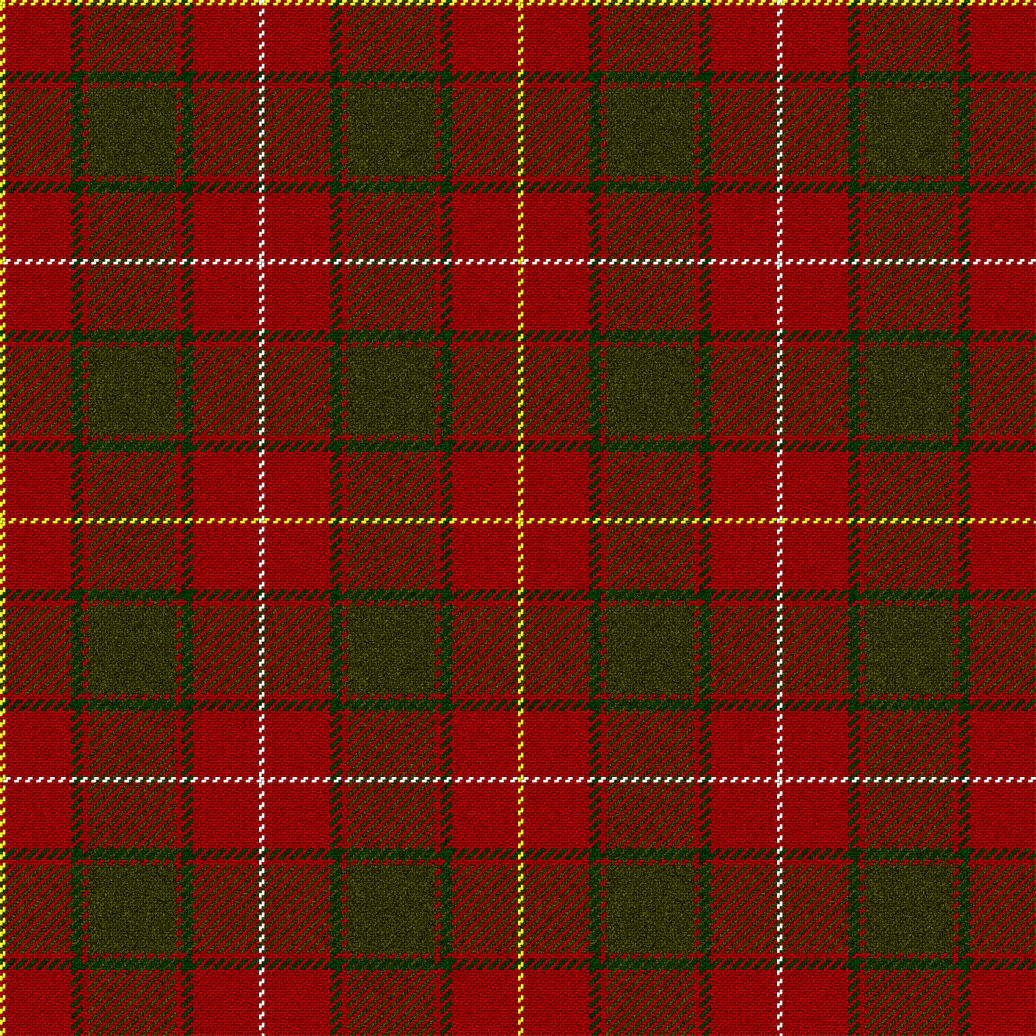 Clan Macfie tartan. Thread count stated on clan website "2 white/yellow; 24 red; 4 green; 2 red; 32 green" Thread count used: Y2 R24 G4 R2 G32 R2 G4 R24 W2.